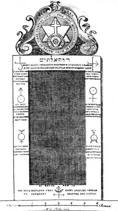 Porta Magica in Rome